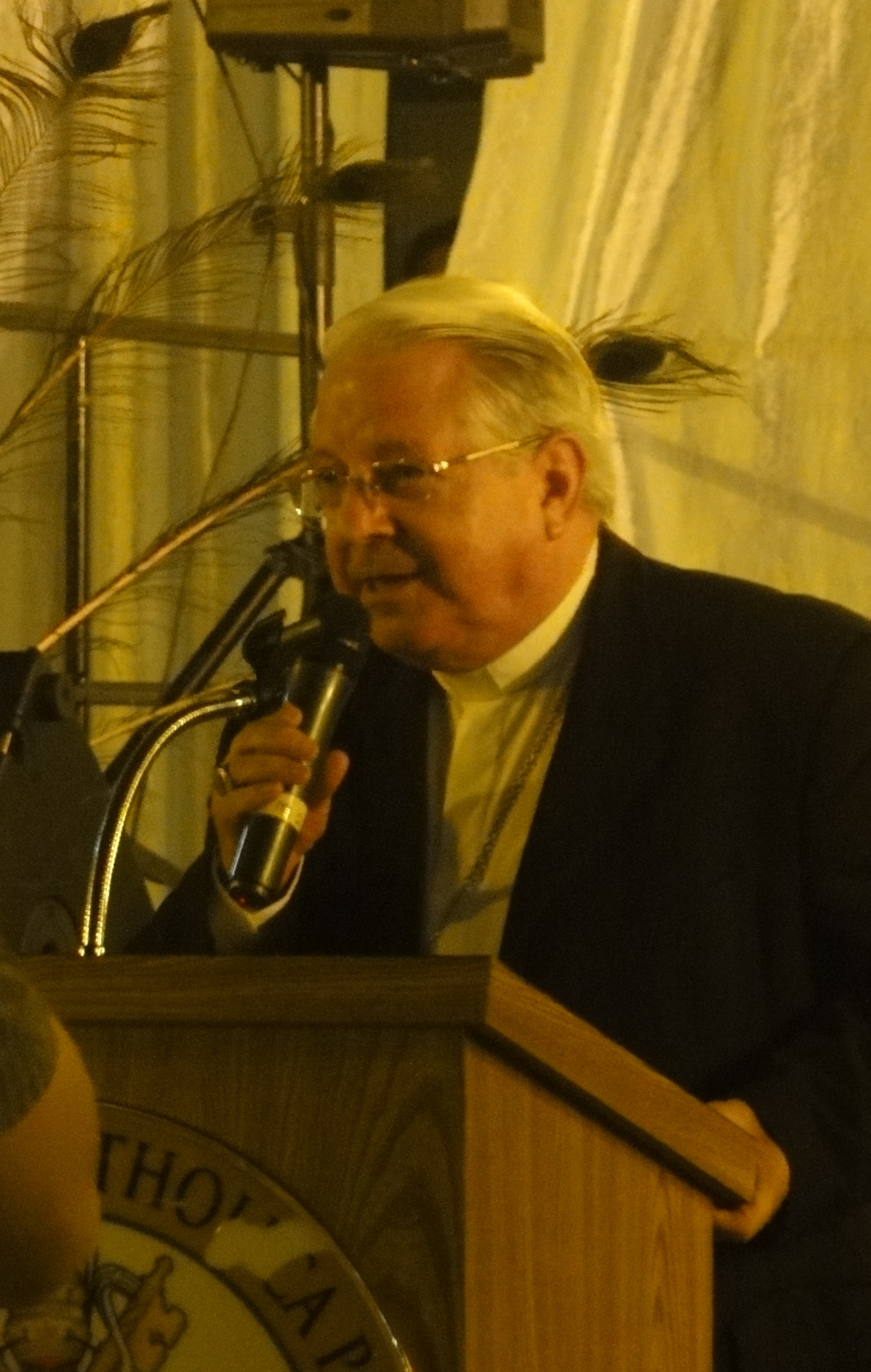 Félix Lázaro Martínez, Obispo de Ponce, Puerto Rico, en 2012 (DSC05249B)